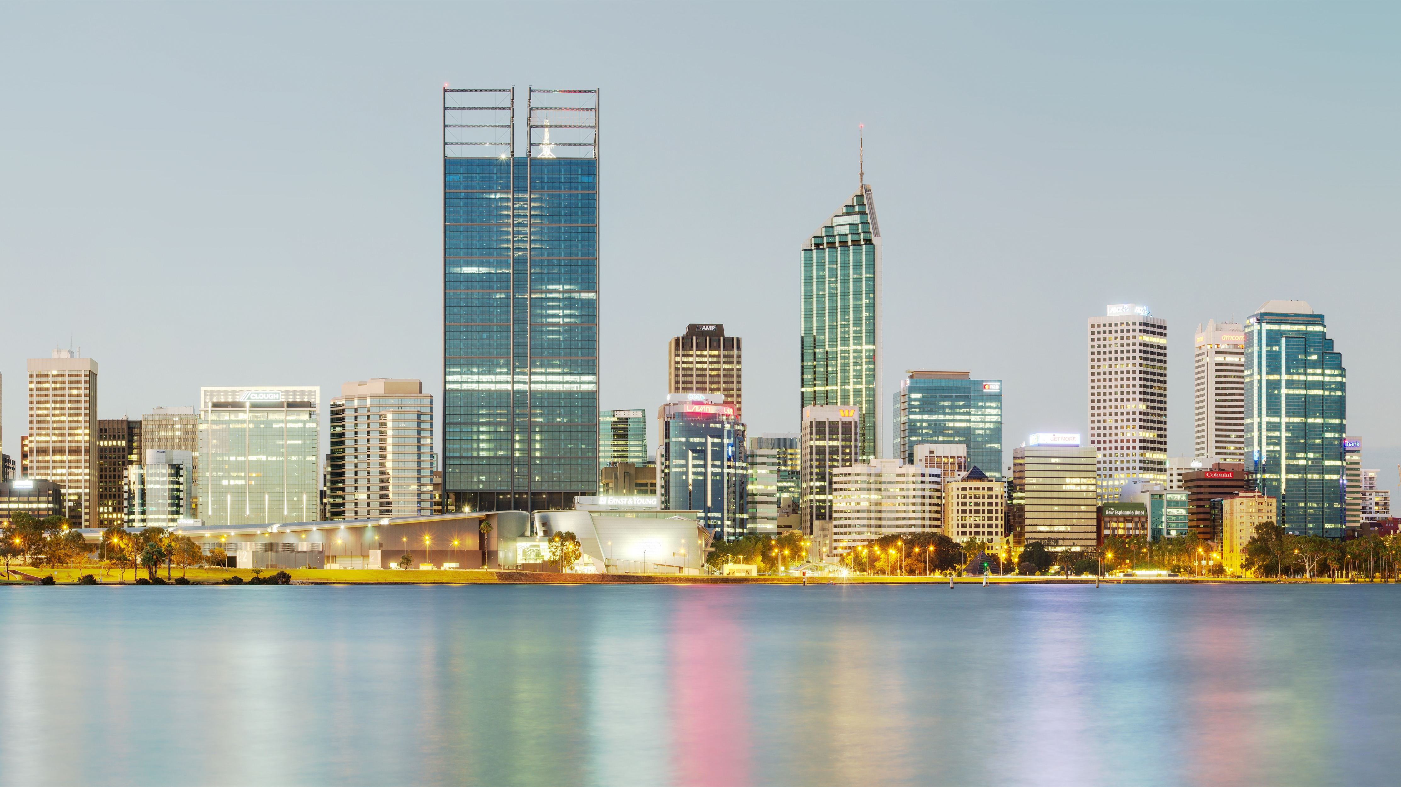 Perth CBD from Mill Point, Perth, Western Australia.